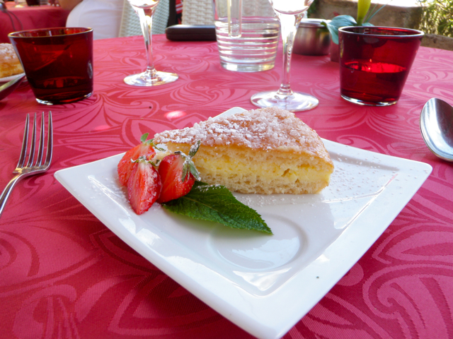 The famous and delectable dessert of St. Tropez and the surrounding region.